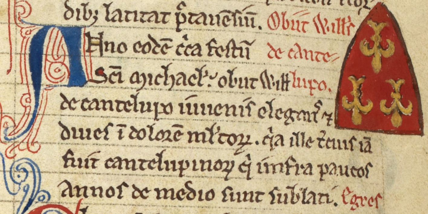 Matthew Paris, Chronica Maiora - Royal MS 14 C VII, (The Historia Anglorum, or "History of the English", by Matthew Paris (d. 1259), a history of England covering the years 1070-1253. Begun in 1250 and perhaps completed around 1255) arms of Cantilupe; folio 165v[1]: Inverted arms of William III de Cantilupe (d.1254), 3rd feudal baron of Eaton Bray in Bedfordshire, referring to his death. Not (as in the British Library catalogue[2]) referring to the death of his uncle Walter de Cantilupe, Bishop of Worcester, who died in 1266, thus 7 years after the death of Matthew Paris. The events on the folios before and after 165v all refer to the year 1254. Latin text (transcribed by William Wats, London, 1686[3], p.769): Red-ink header: Obiit Will's de Cantelupo; main paragraph: Anno eodem circa festum sancti michaelis obiit Will(ielmus) de Cantelupo juvenis elegans et dives in dolore multorum quia ille tertius iam fuit Cantelupinorum qui infra paucos annos de medio sunt sublati ("W. de Cantilupe died...In the same year (i.e. 1254) around the feast of St Michael died William de Cantilupe, an elegant and rich youth, in the grief of many because he was already the third of the Cantilupes who within a few years were lifted up from their midst"). (His father William II had died in 1251 and his grandfather William I in 1239).